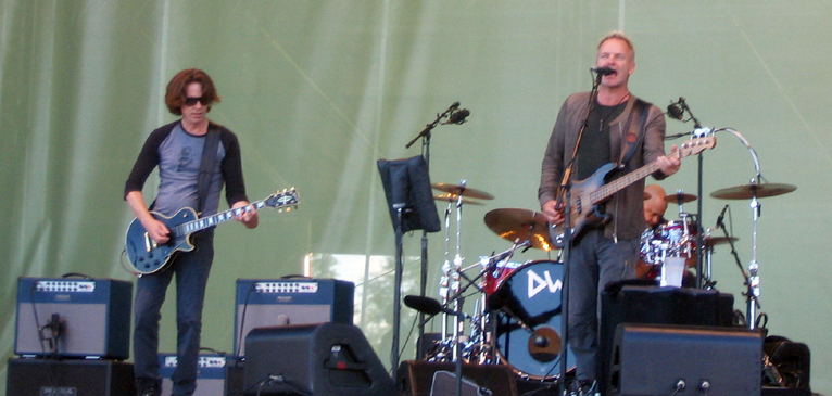 Dominic Miller and Sting at PoriJazz 2006